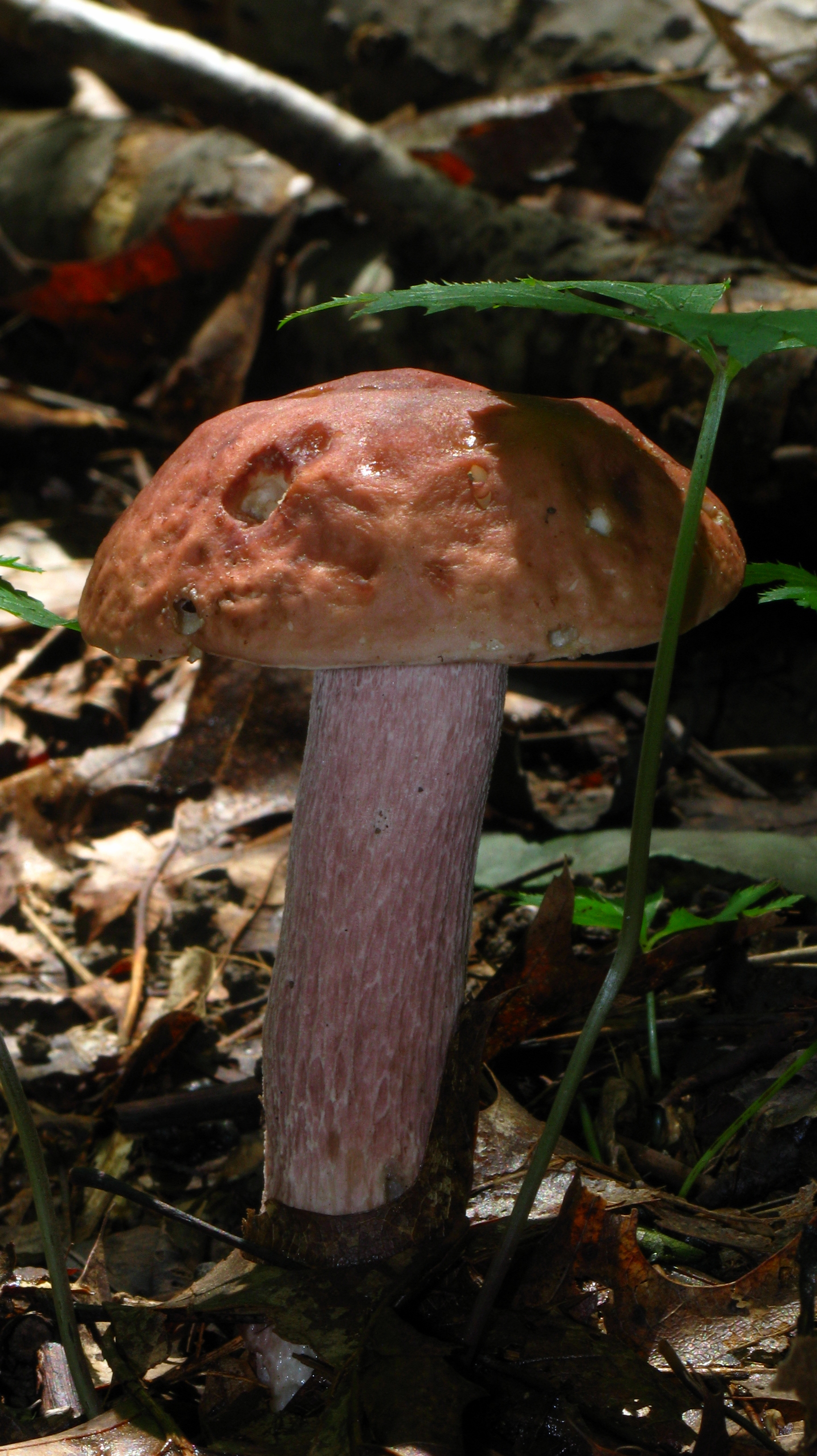 Xanthoconium separans (Peck) Halling & Both Location: Wayne National Forest, Athens Co., Ohio, USA For more information about this, see the observation page at Mushroom Observer.